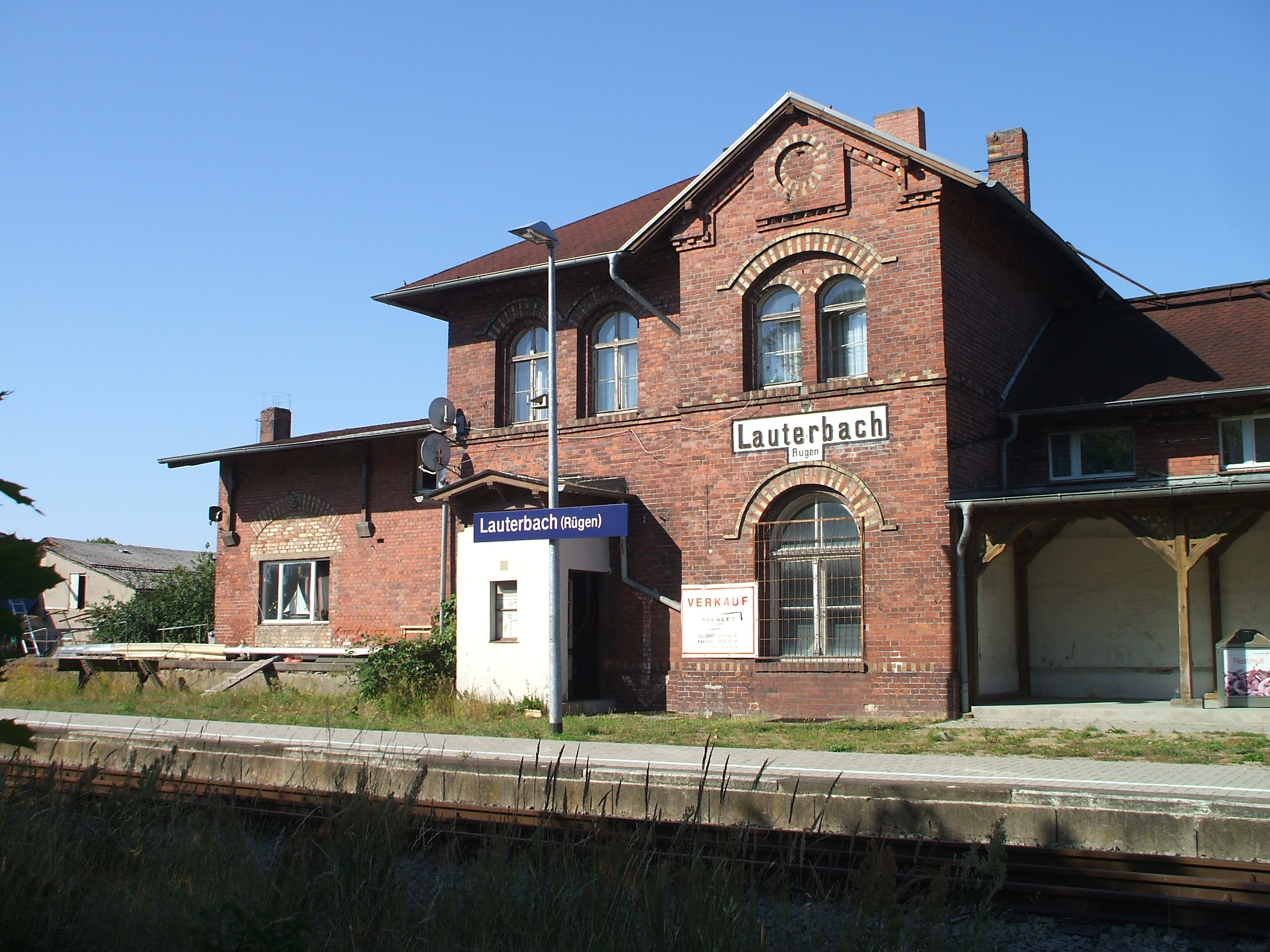 Lauterbach train station, isle of Rügen, Germany